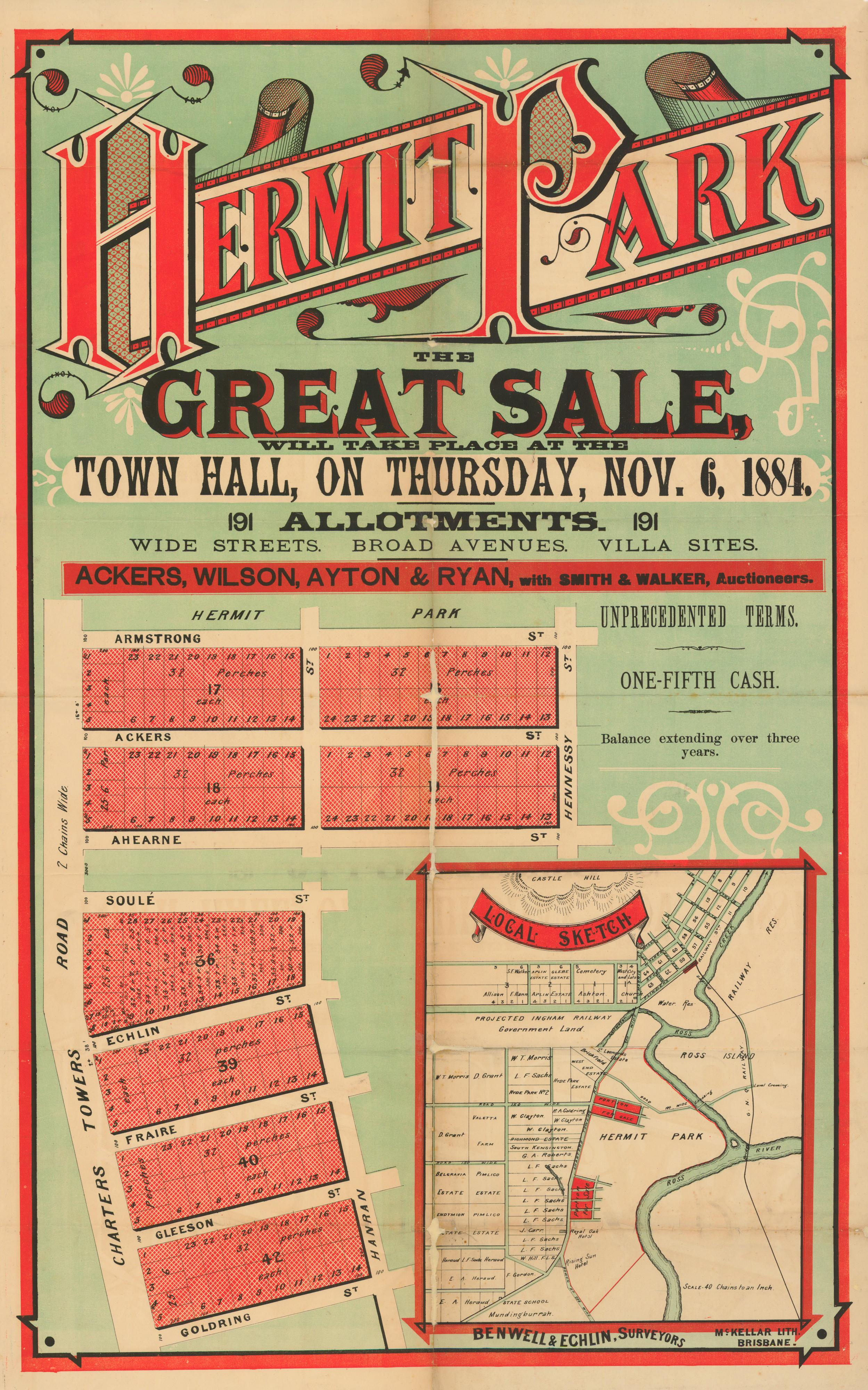 Creator: Benwell & Echlin, surveyors; Ackers, Wilson, Ayton & Ryan, with Smith & Walker, auctioneers. Location: Townsville, Queensland. Description: Land for sale is 191 allotments to be auctioned on 6 November, 1884. Published by McKellar lithographer (Brisbane). 90 x 57 cm. Map includes conditions of purchase and locality map. Read more about SLQ's map collections: View this image at the State Library of Queensland: Information about State Library of Queensland’s collection: You are free to use this image without permission. Please attribute State Library of Queensland.